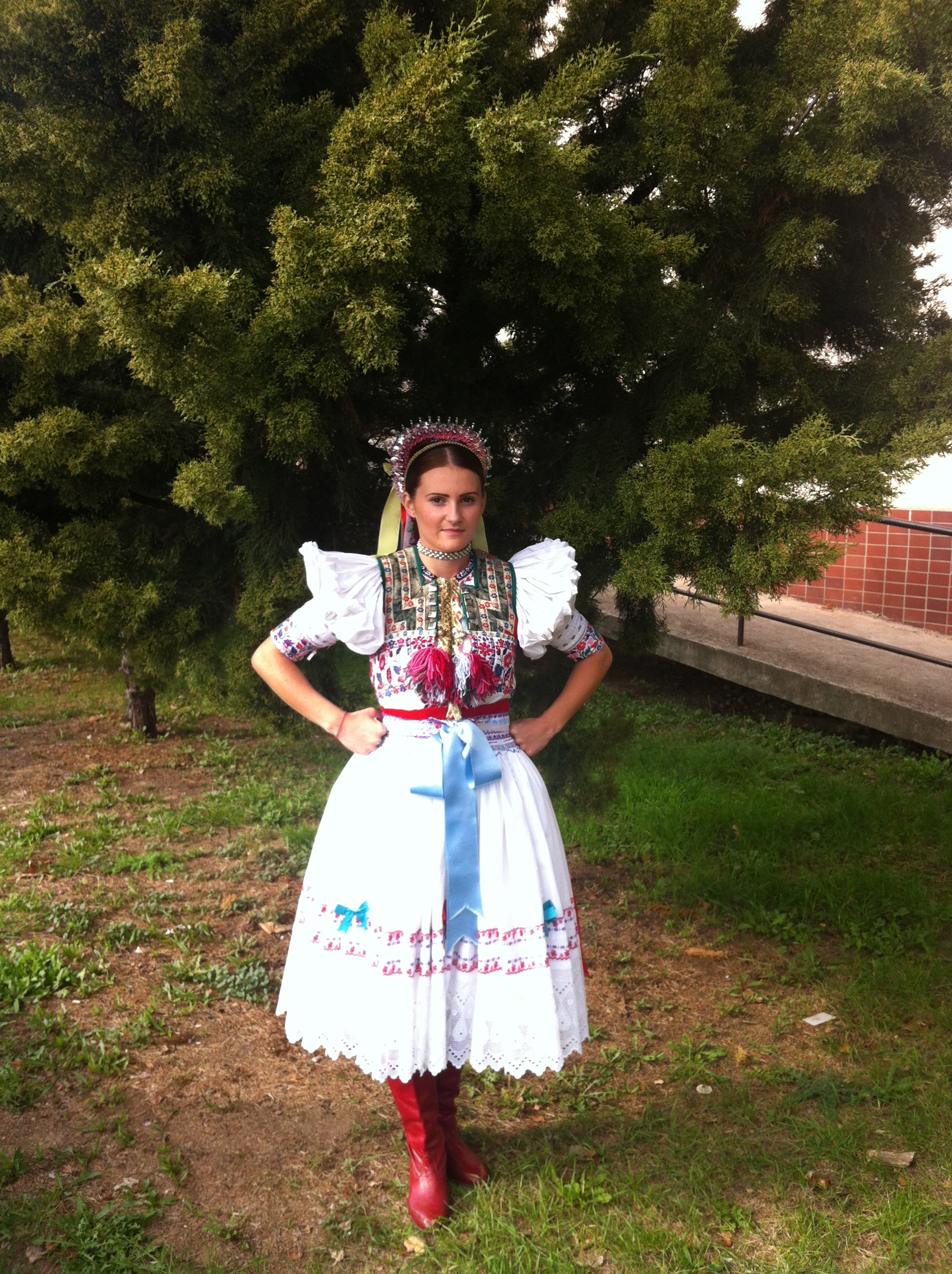 Slovak tradtional folclore dress.